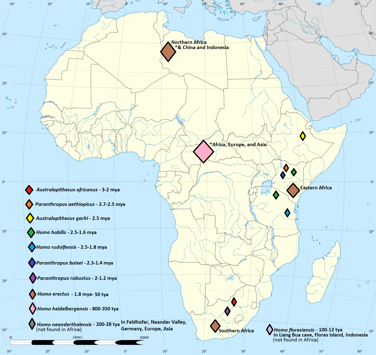 A map depicting the locations of species with post-canine megadontia in Africa